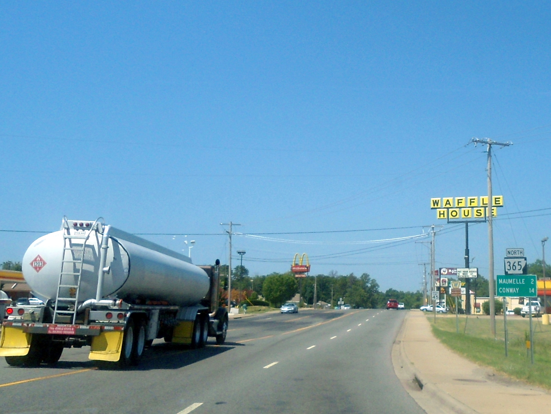 Highway 365 near Maumelle. Just west of I-40/US 65